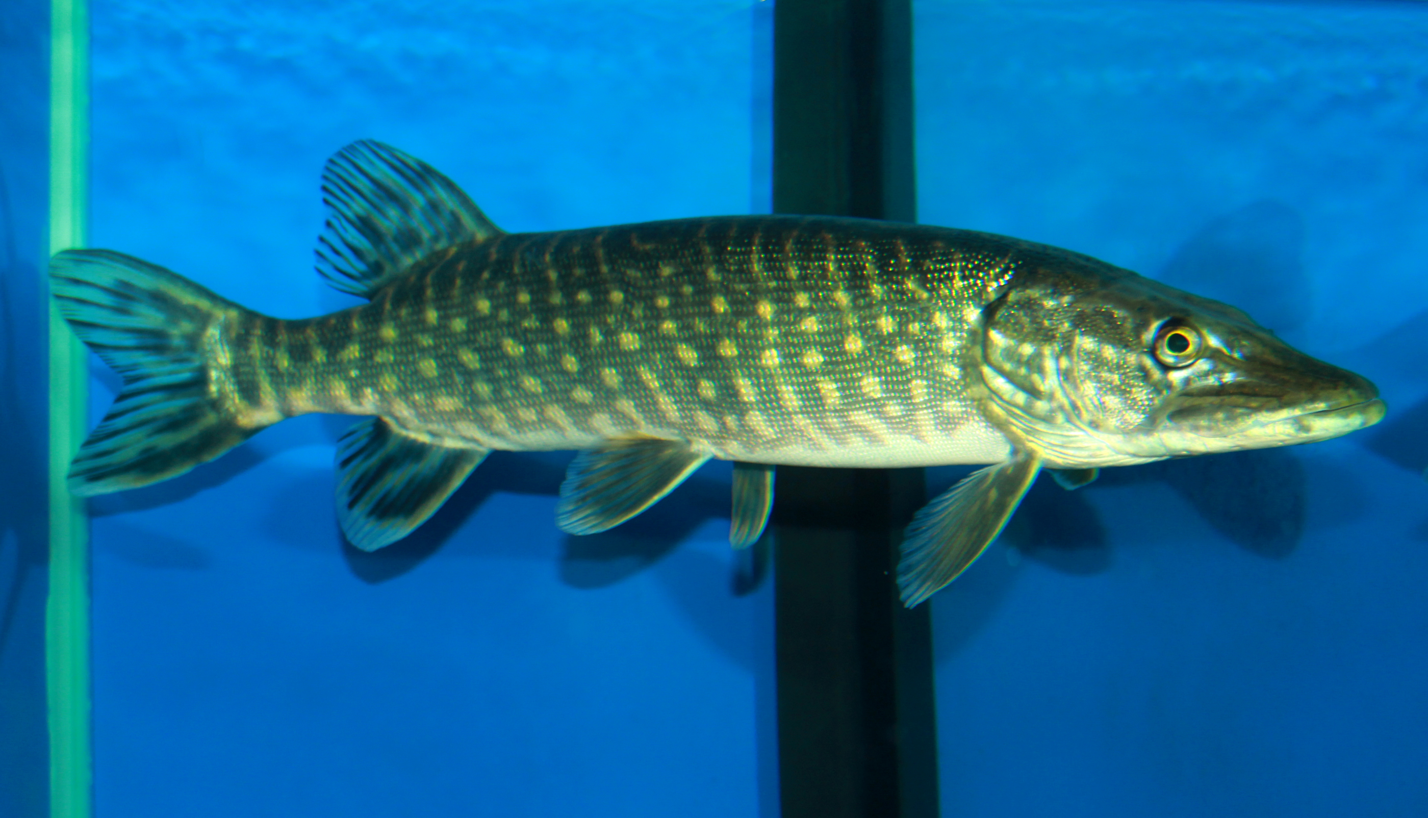 Northern pike on exhibition Subaqueous Vltava, Prague 2011, Czech Republic